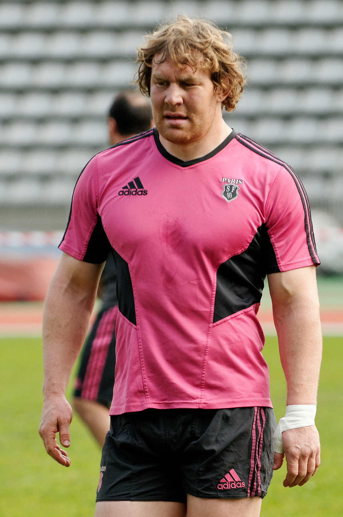 Aled de Malmanche during the Stade Français training session held at Stade Charléty, Paris on 3 April 2012.